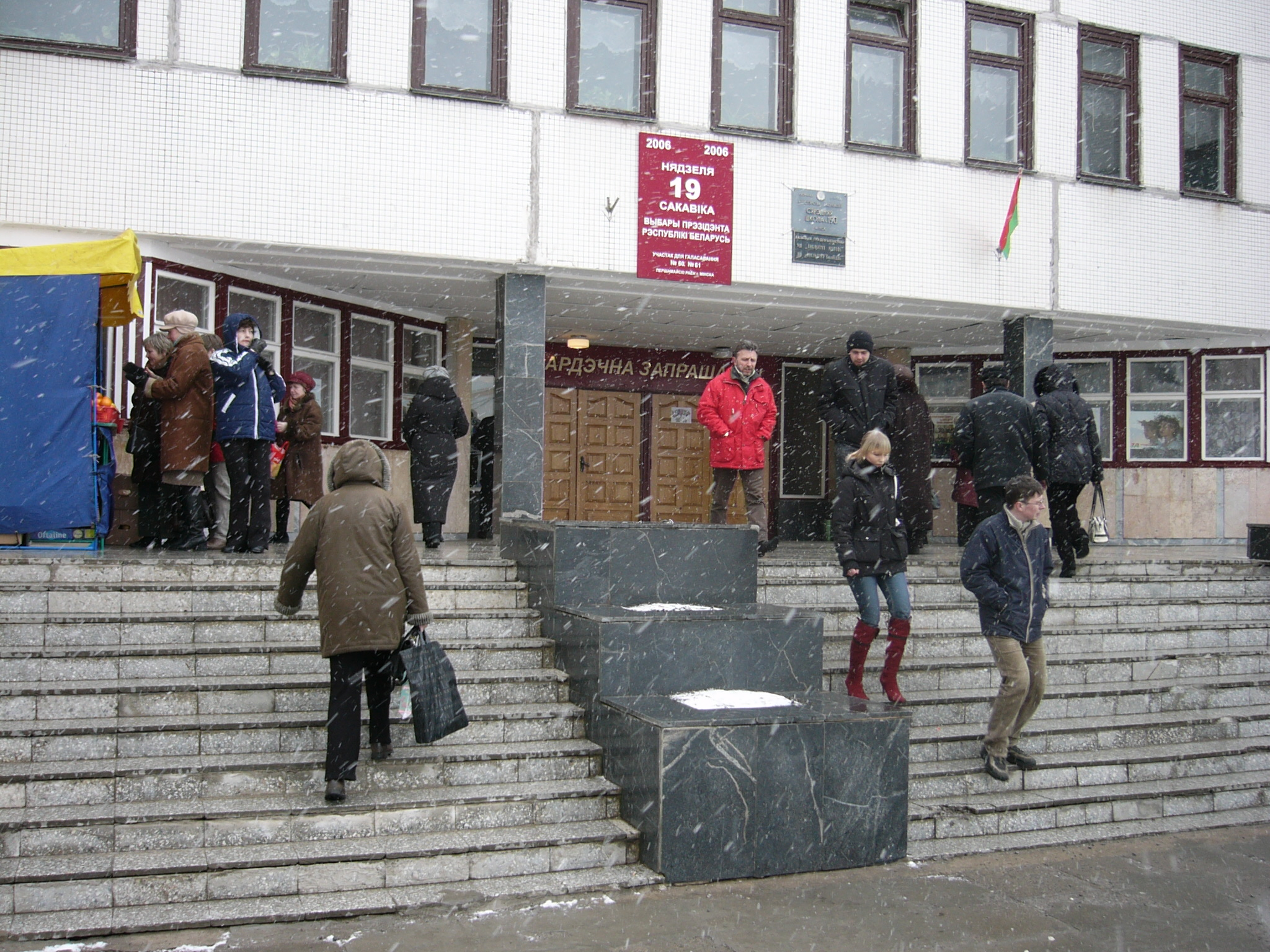 President elections in Belarus, March 19 2006 Photo by Redline